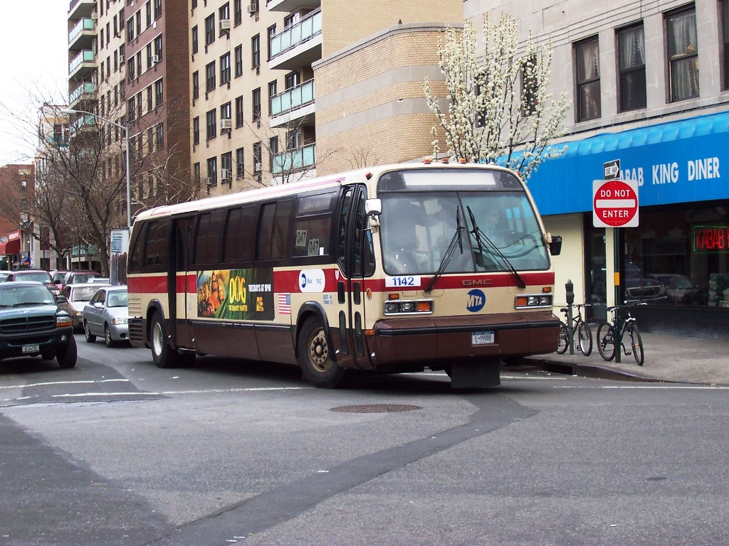 MTA Bus Company GMC RTS #1142 (ex-Jamaica Buses 556) has reached the end of the Q19B line in Jackson Heights, NY.